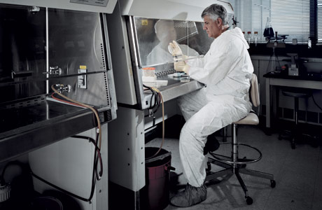 Picture of William profiled in Esquire